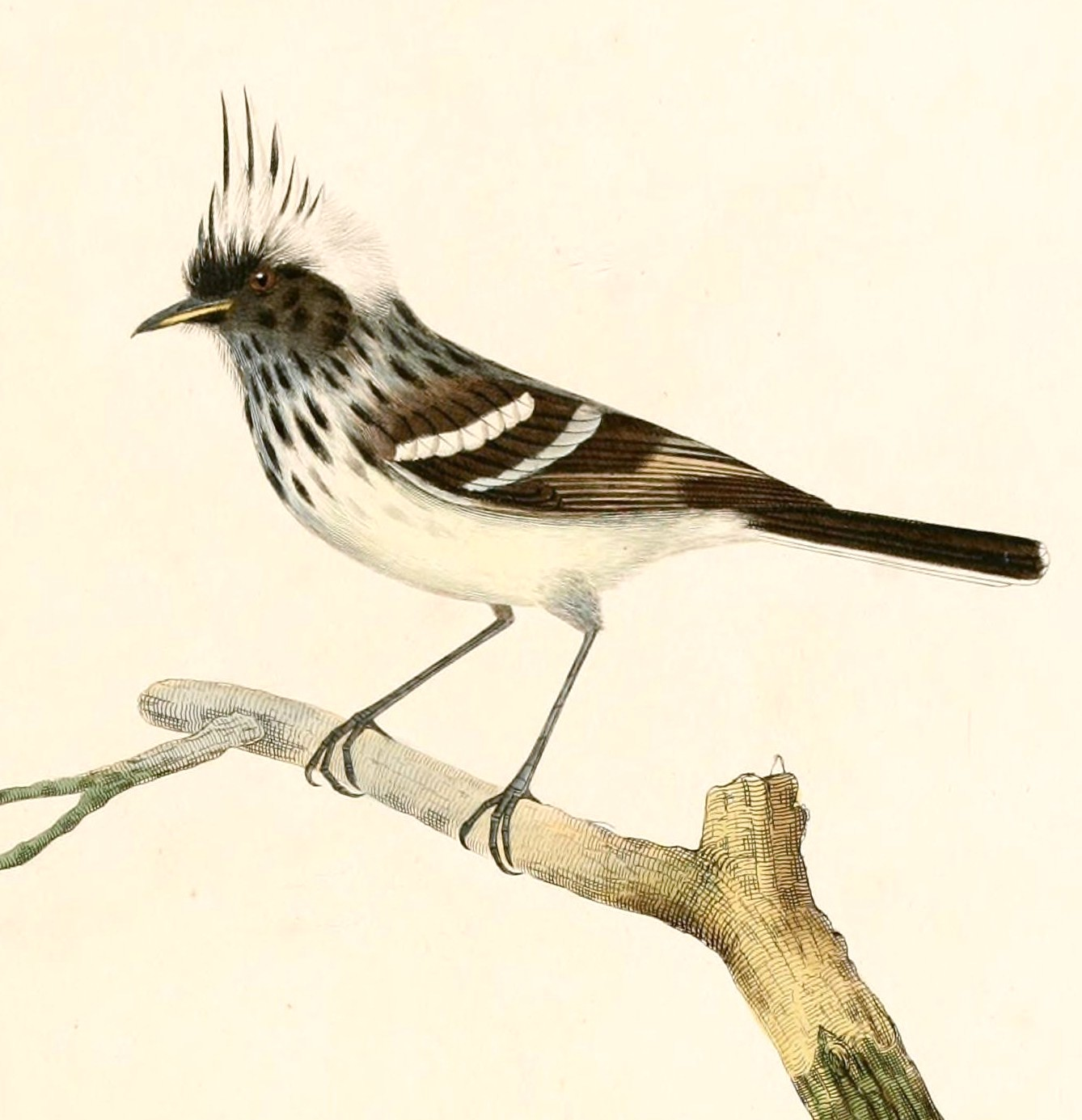 « Culicivora reguloides » = Anairetes reguloides (Pied-crested Tit-Tyrant)